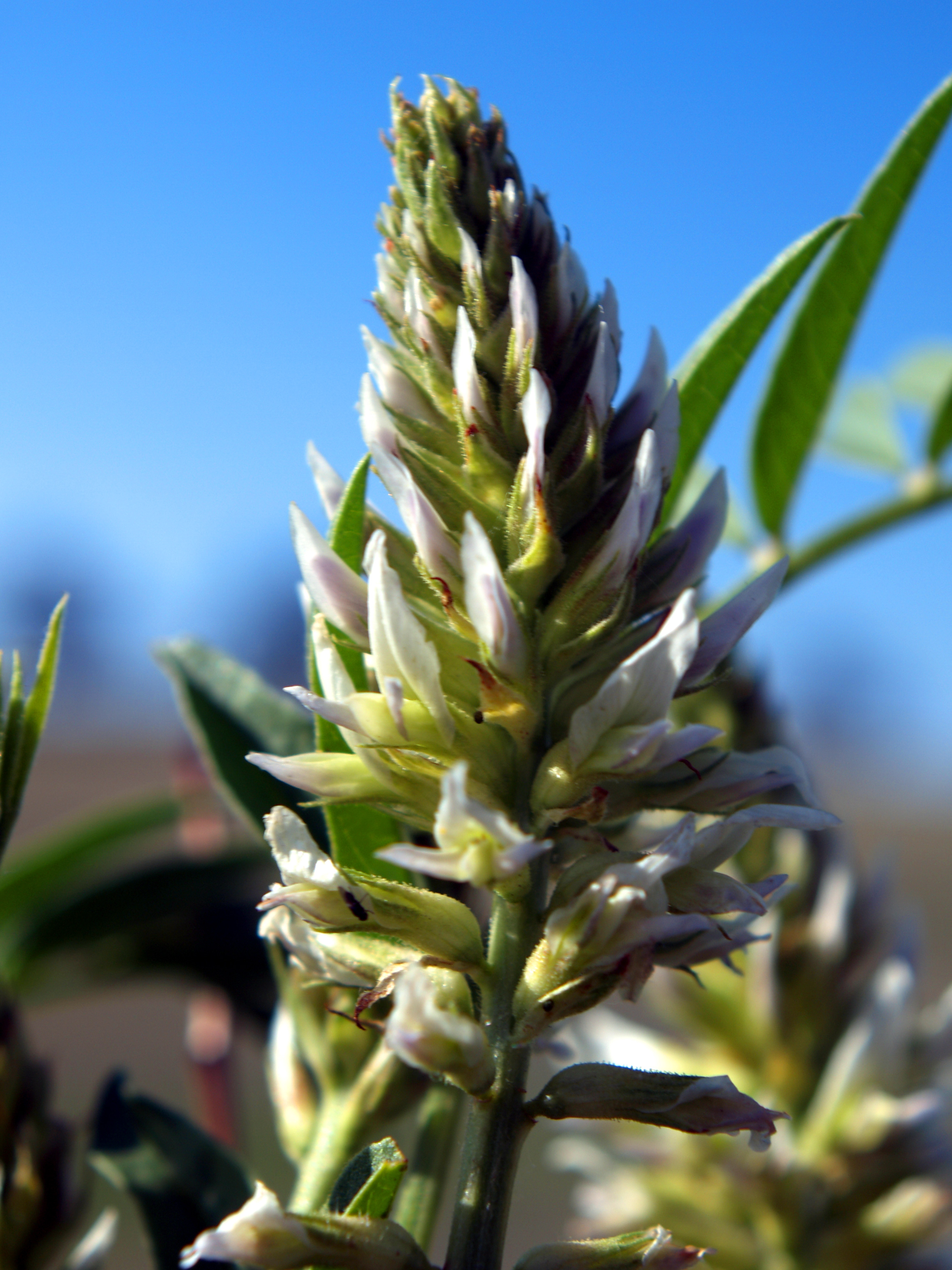 Glycyrrhiza lepidota, at Wind Cave National Park, South Dakota, USA